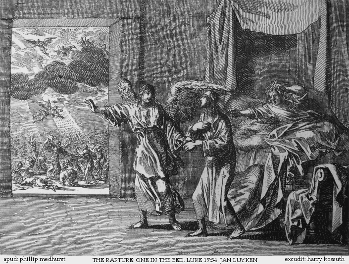 The Rapture: One in the Bed